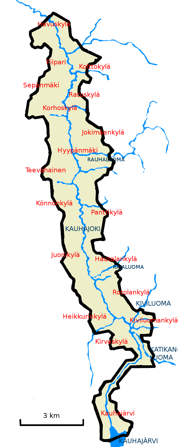 Map of Hyypänjokilaakso valley. The valley locate in Kauhajoki, Finland.